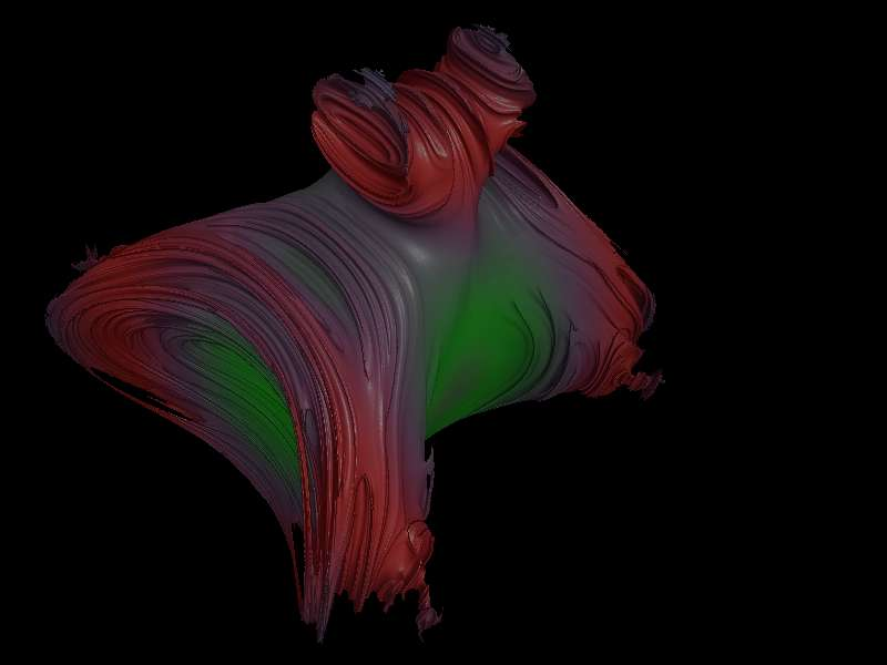 A fractal from a cubic function